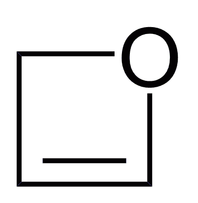 oxetene